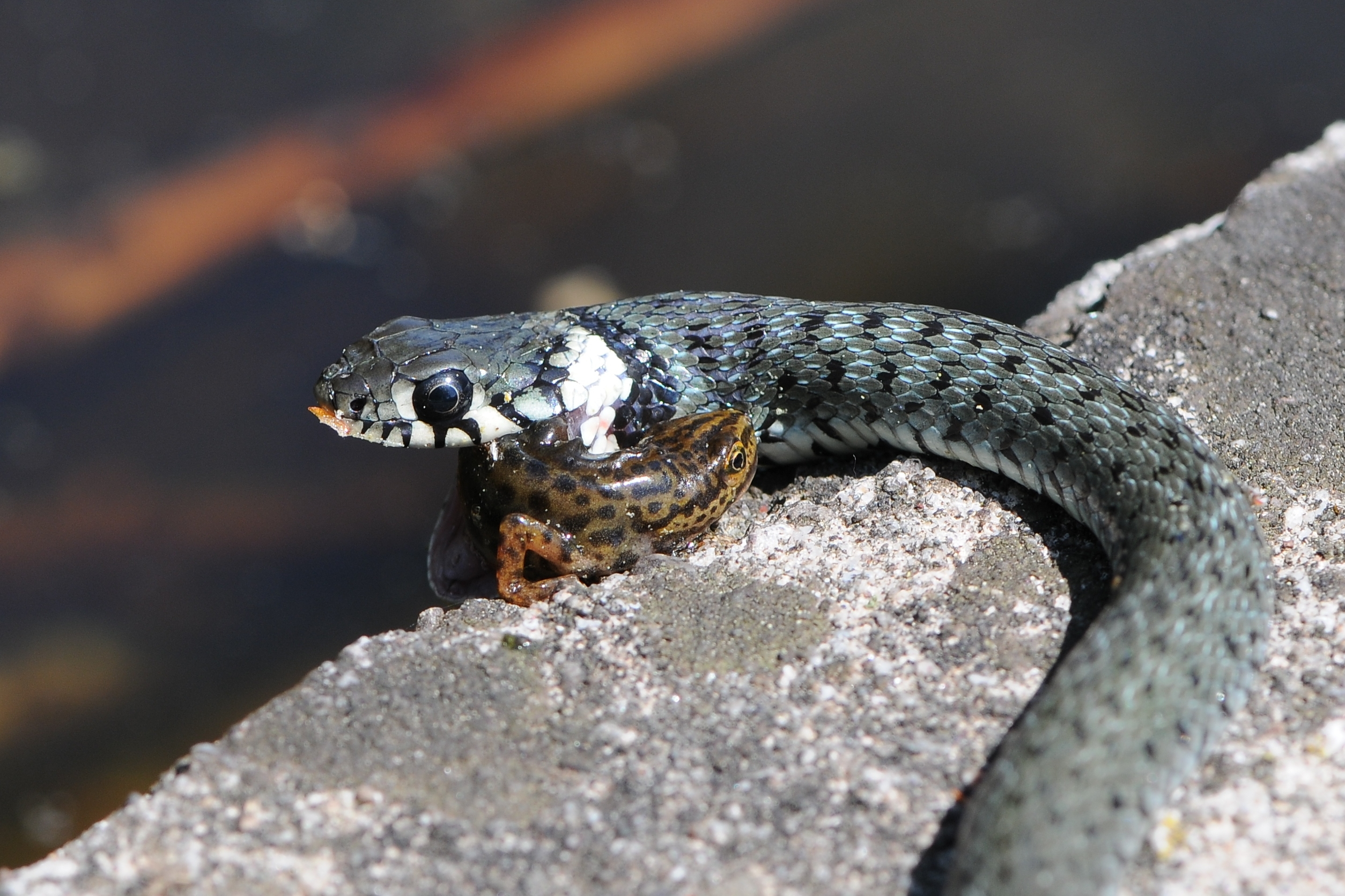 Grass Snake (Natrix natrix) eating a male Smooth Newt (Lissotriton vulgaris; Syn.: Triturus vulgaris). Seen at outdoor swimming pool "Bruggerhorn" in Höchst (Vorarlberg), Austria.